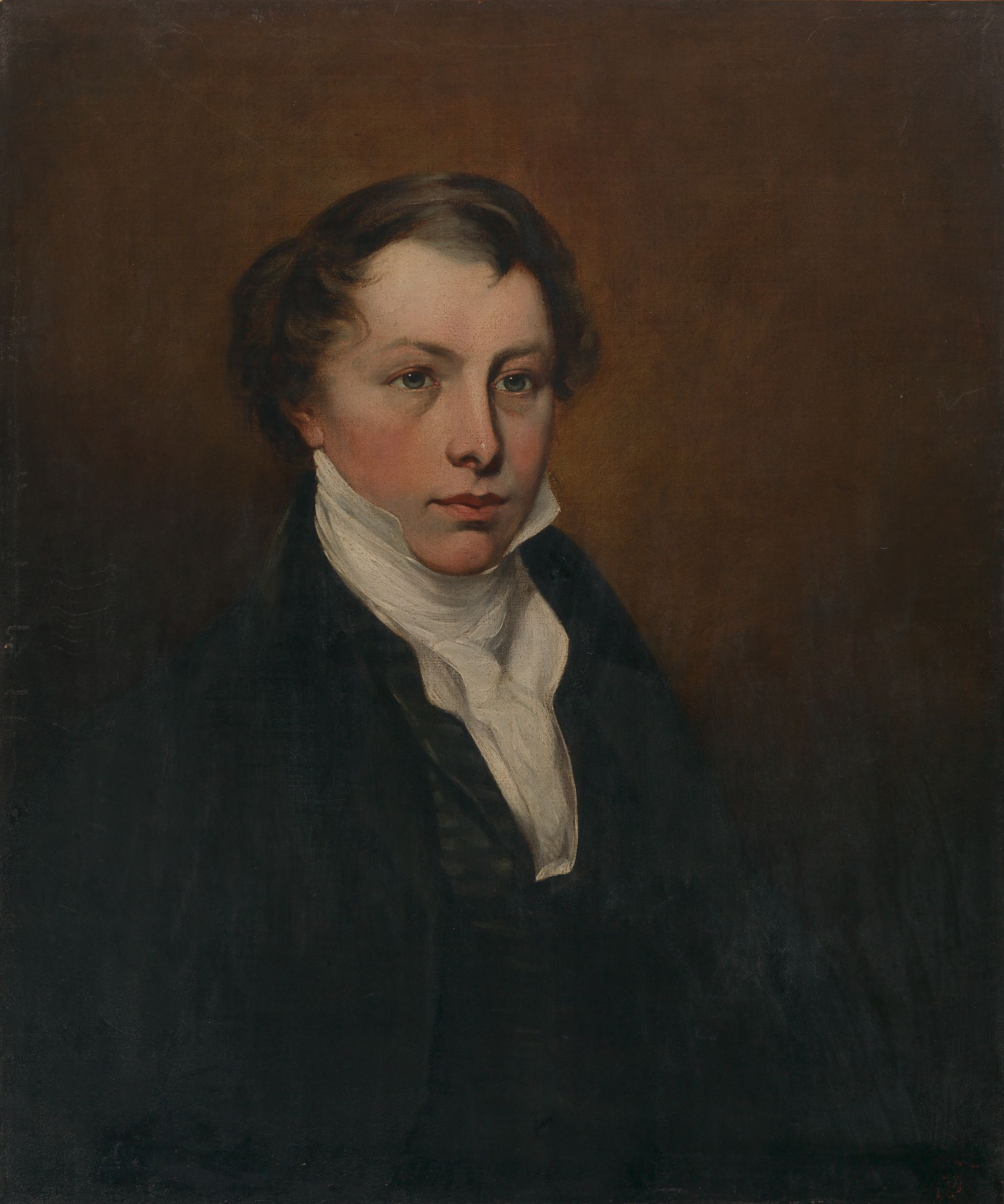 Image of Benjamin Boyd from State Library of New South Wales, Australia. Call Number ML1461